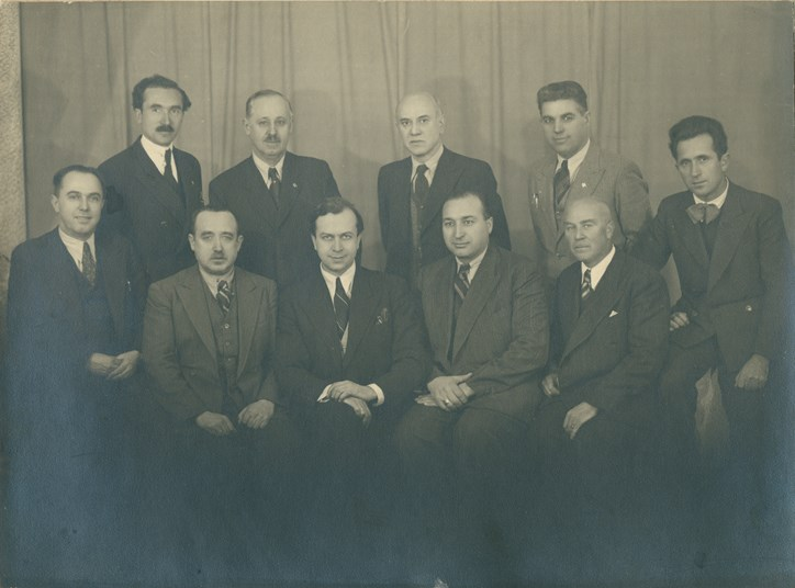 Ivan Maleev, Ivan Plachkov, Aleksander Vazov, Stoyan Tsenev, Angel Hristov, Pavel Tomov, Boris Sprostranov, Drashko Datsov, Iliya Grigorov, Hristo Gatsev.